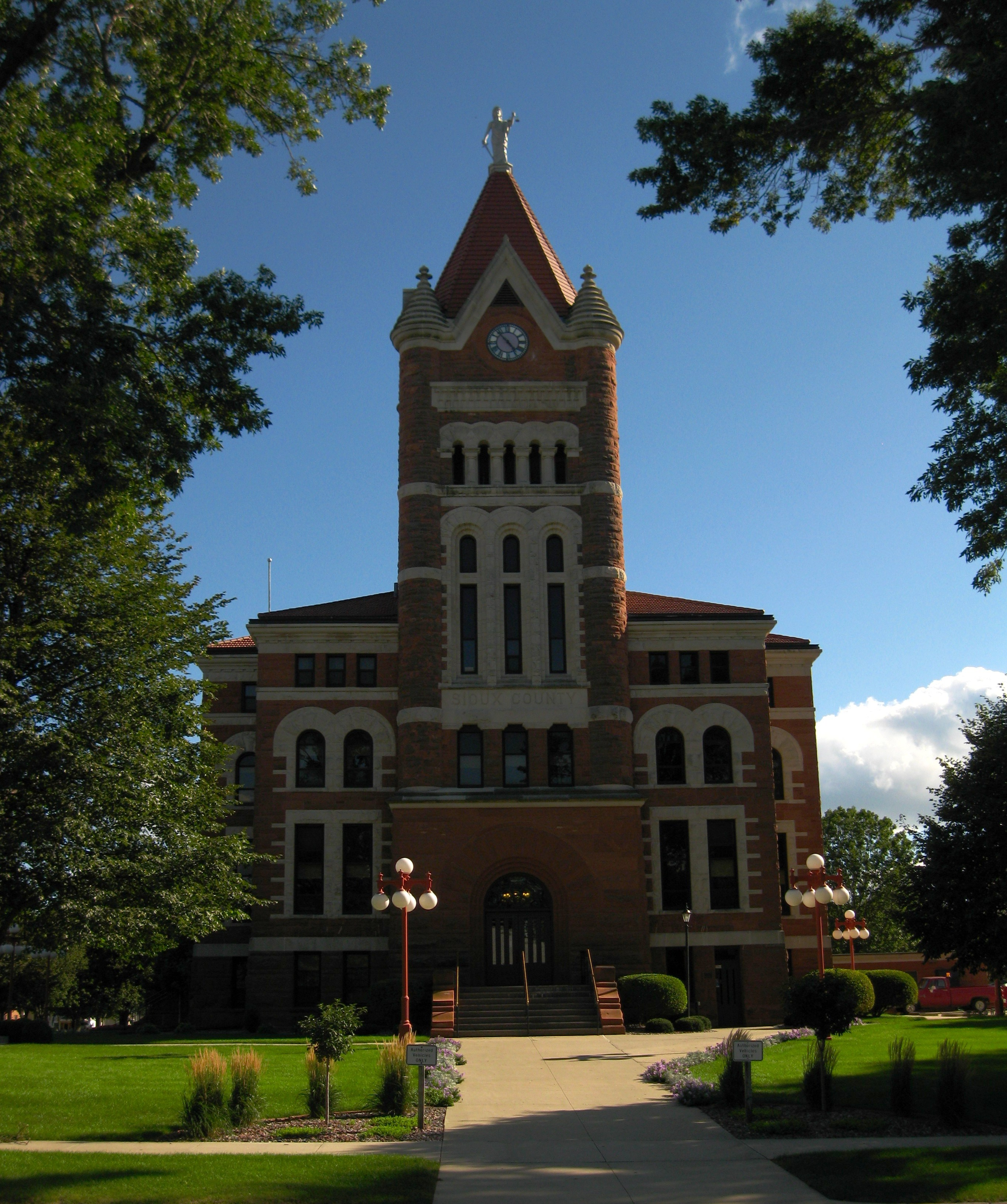 This picture was taken by me in Orange City Iowa on the 4th of September, 2011. As such I am uploading it to be available freely to the public.